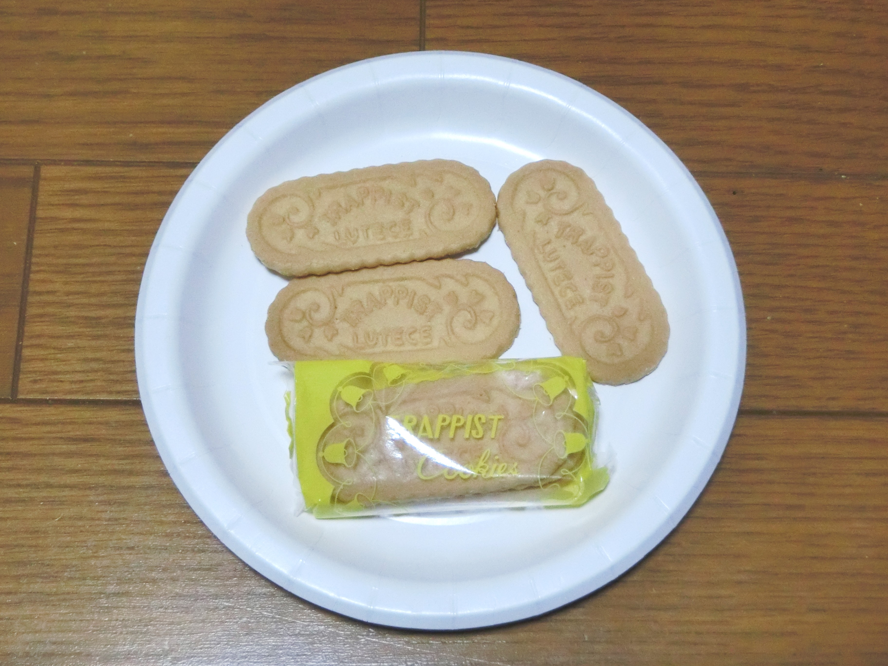 Trappist Cookies